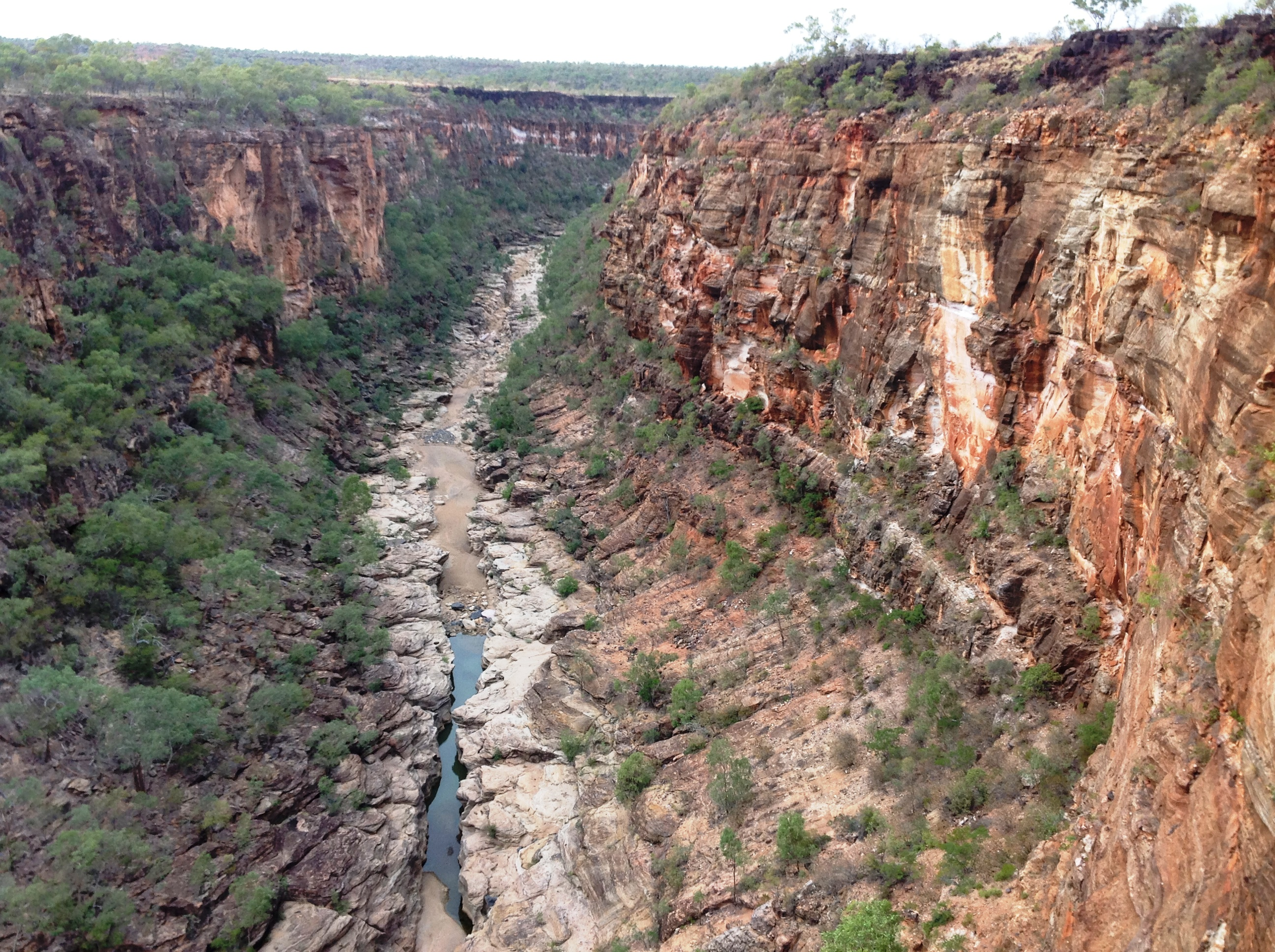 Several layers of sediment can be seen that were carved over millions of years by the Porcupine River (AKA Galah River).